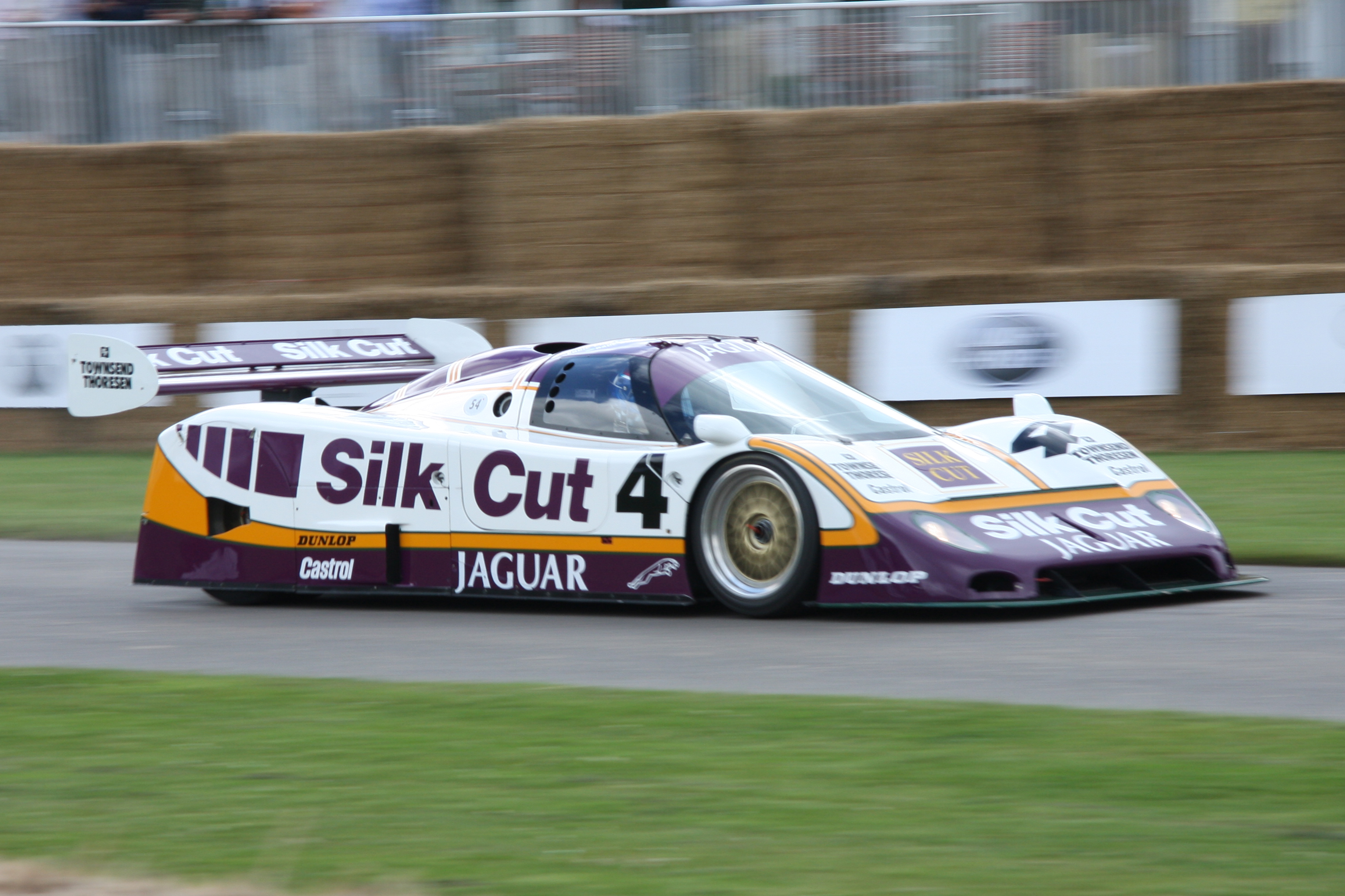 Built 1990. 7 litre V12. 750 bhp (Note, this is a Jaguar XJR-8, not an XJR-12 as described by the photographer)